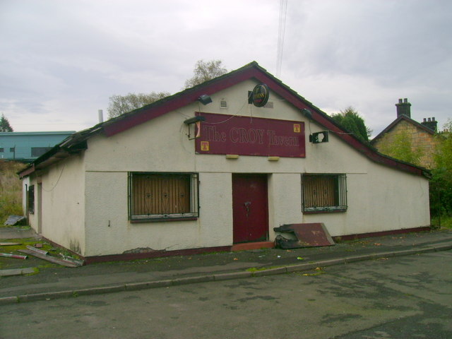 The Croy Tavern The Croy Tavern has not been trading for a couple of years and has evidently suffered from a combination of neglect and vandalism since it closed.